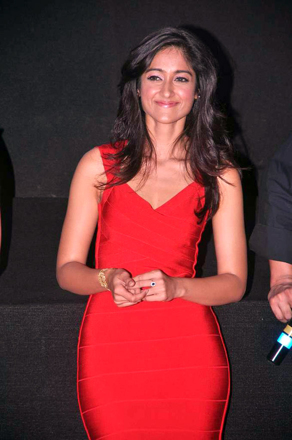 Ileana Dcruz at the launch of 'Barfi!' promo